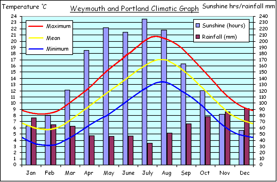 Climatic graph of Weymouth and Portland (data source: WPBC)